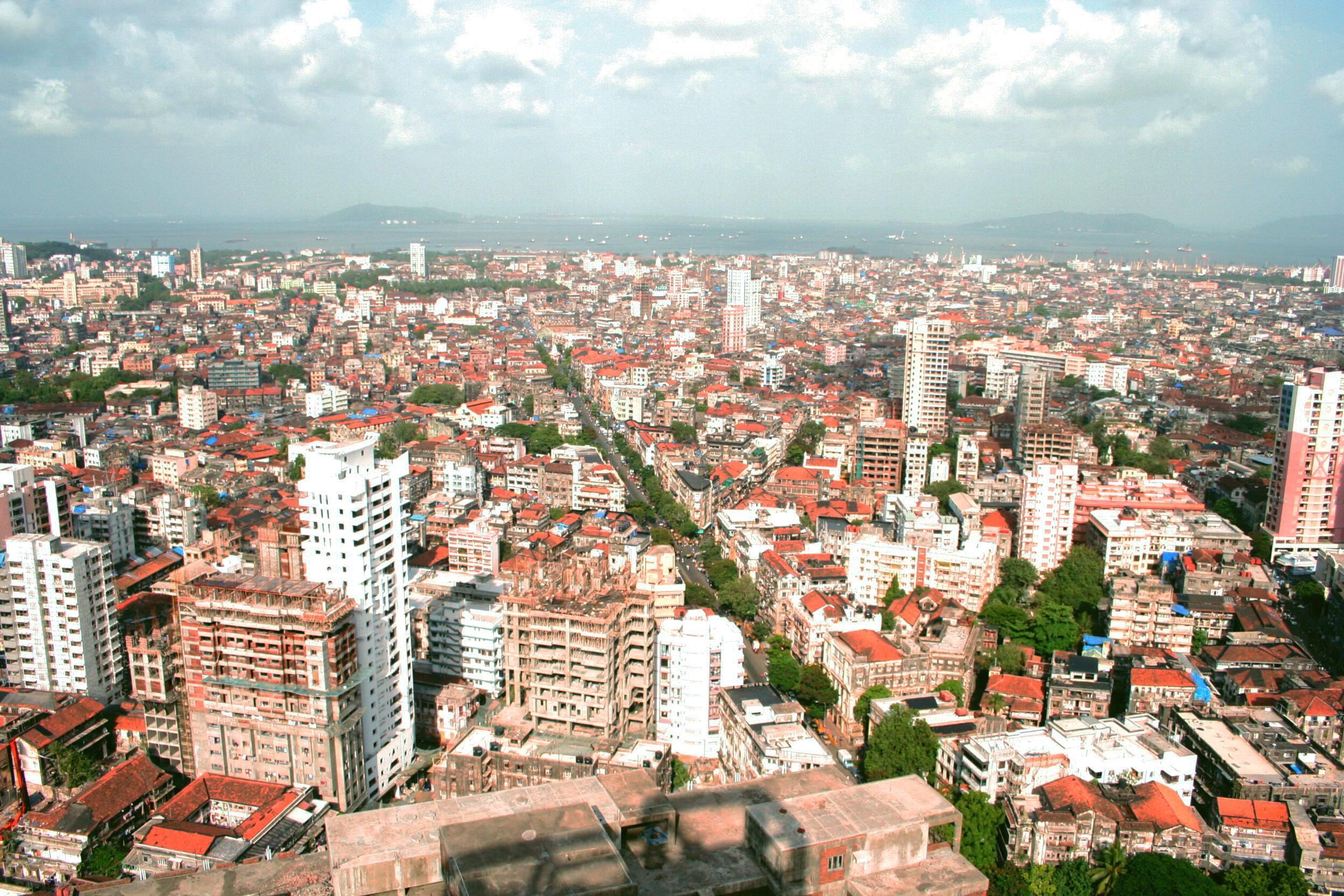 Khetwadi, Sikka Nagar. Old parts of the city of Mumbai/Bombay. Note the numerous thatched roofs. These are slowly being replaced by skyscrapers.